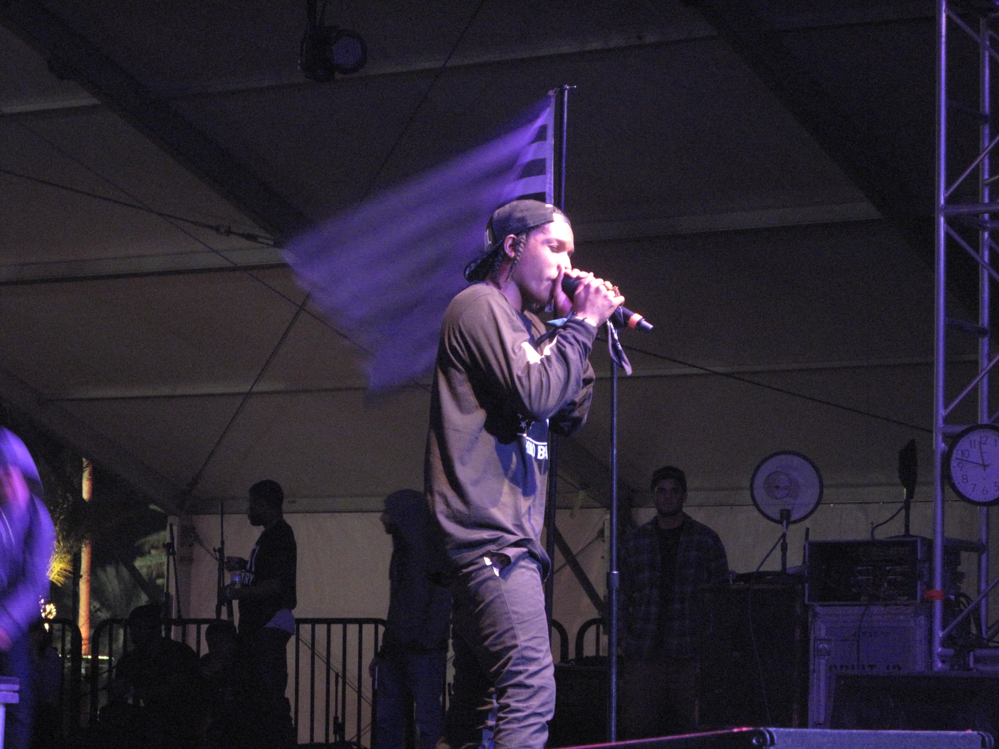 ASAP Rocky performing on Drake's Club Paradise Tour, at Coachella, 2012